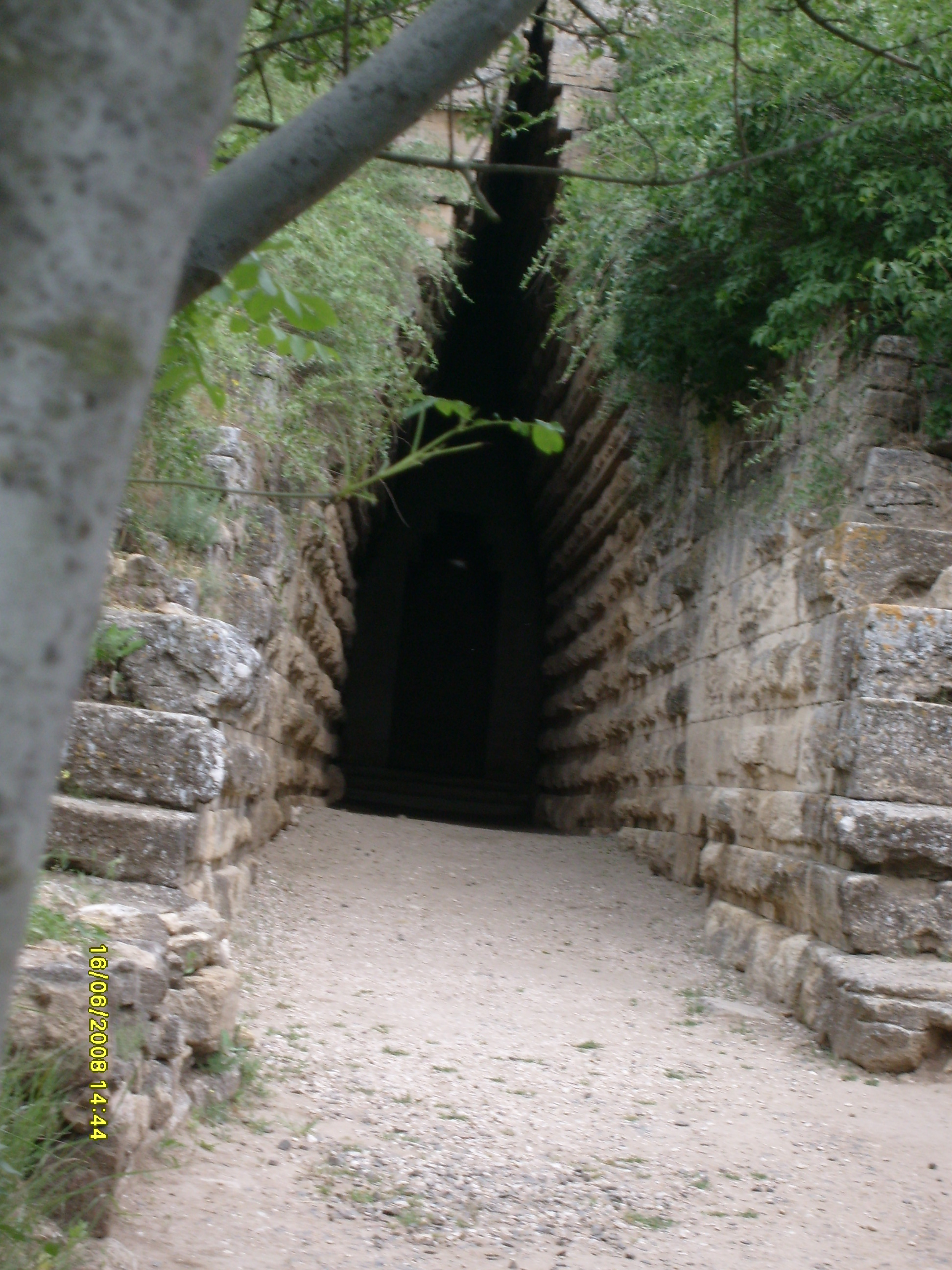 Kerch - Tsarskiy Kurghan